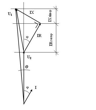 Diagram of voltage loss on a high-tension cable.